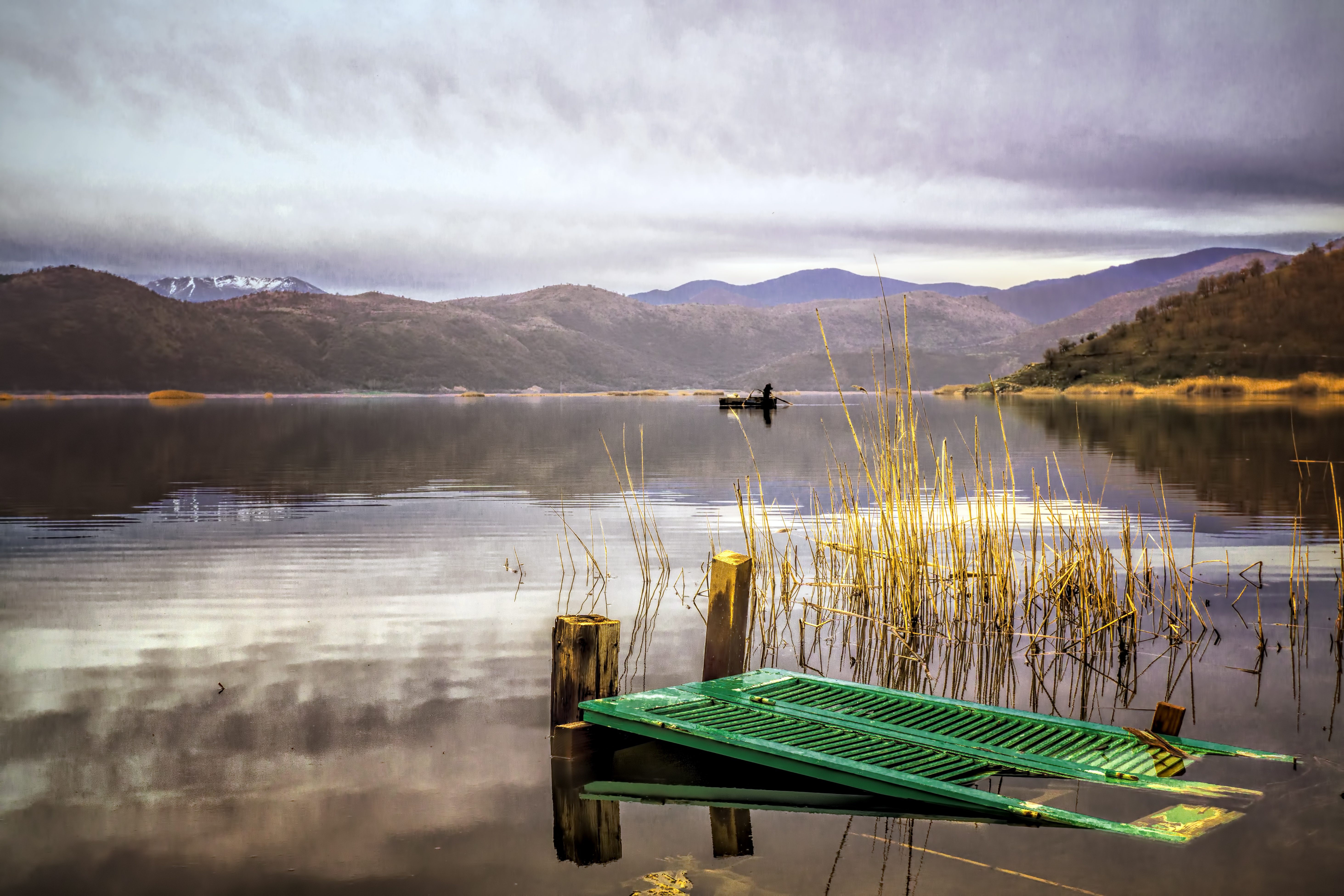 This is a photography of Natura 2000 protected area with ID GR1340005